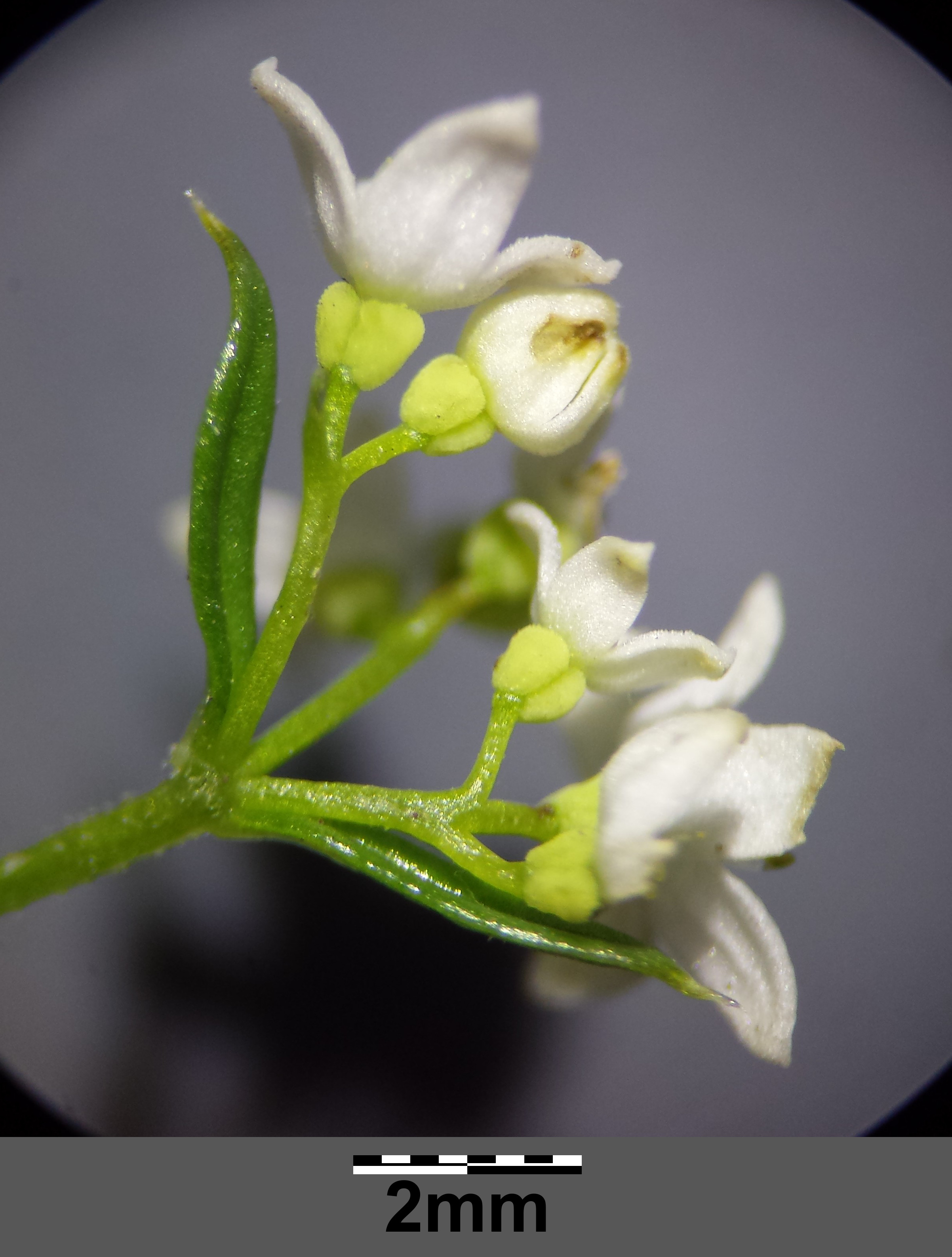 Inflorescence Taxonym: Galium uliginosum ss Fischer et al. EfÖLS 2008 ISBN 978-3-85474-187-9 Location: near Komau, district Freistadt, Upper Austria - ca. 850 m a.s.l. Habitat: brookside